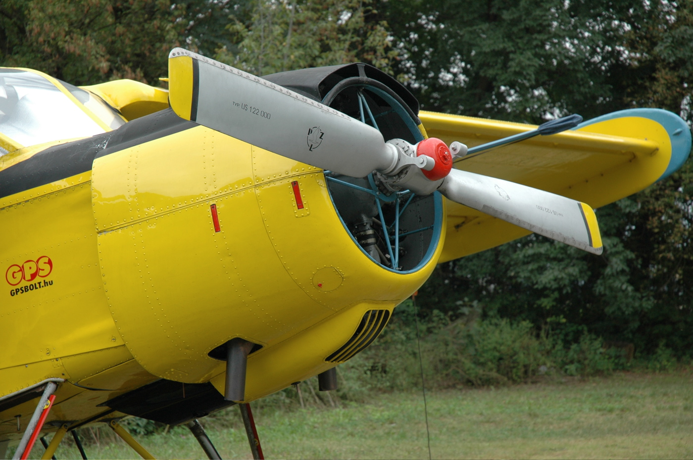 PZL-101 Gawron utility aircraft (reg. HA-PYC, Dunakeszi, Hungary)